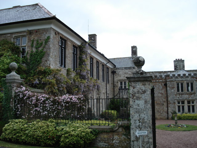 North Wyke Home to the Institute for Grassland and Environmental Research